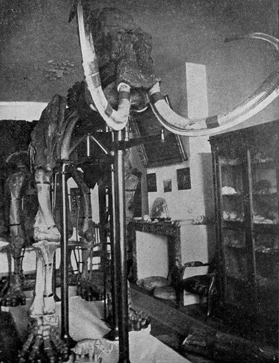 Skeleton reconstituted of mammoth, in the naturalist Cabinet of Doctor Georges Pontier, founder of a learned society in Lumbres (Pas-de-Calais, France). the bones was founded in Arques in a gravel pit.